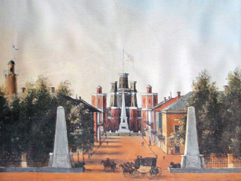 Gothic Castle in Stepanovskoye